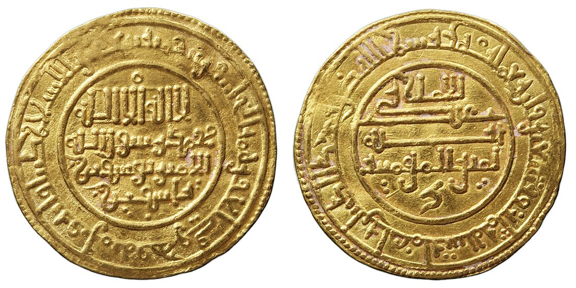 Gold dinar issued under Yusuf ibn Tashfin, leader of the Almoravids in the Iberian Peninsula during the 11th century CE. Minted in Aghmat, nowadays in Morocco.